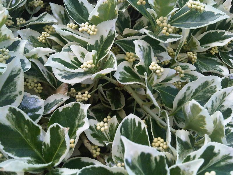 The leaves of the ‘Emerald Gaiety'’ a variety of Euonymus fortunei in London, England.